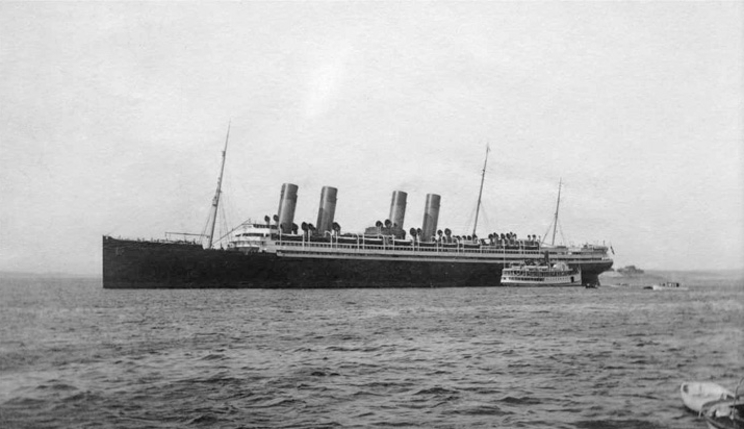 SS Kronprinzessin Cecilie in Bar Harbor, Maine after the ship's funnel tops were painted black, in order to disguise the ship as the RMS Olympic. Photo was taken in 1914, and more than likely published prior to 1923.